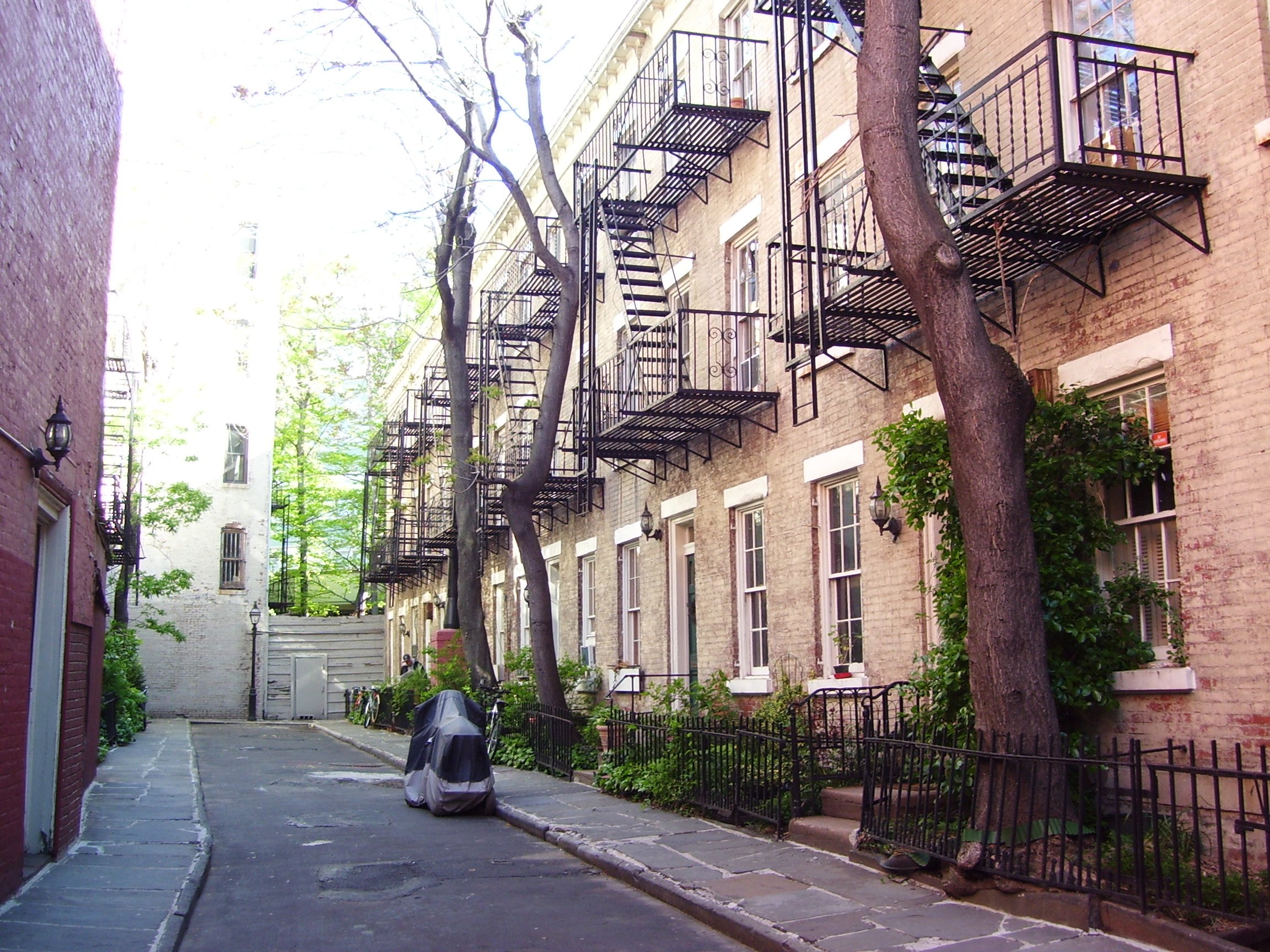 Patchin Place is a short dead-end street located between Greenwich and Sixth Avenues in the Greenwich Village neighborhood of Manhattan, New York City. The houses located there were all built in 1848, and are all 3-story brick dwellings. They are located in the Greenwich Village Historic District. e.e. cummings lived in Patchin Place for 40 years up until his death in 1962, and the journalist John Reed lived there at the end of his life. (Source: "NYCLPC Greenwich Village Historic District Designation Report, volume 1")